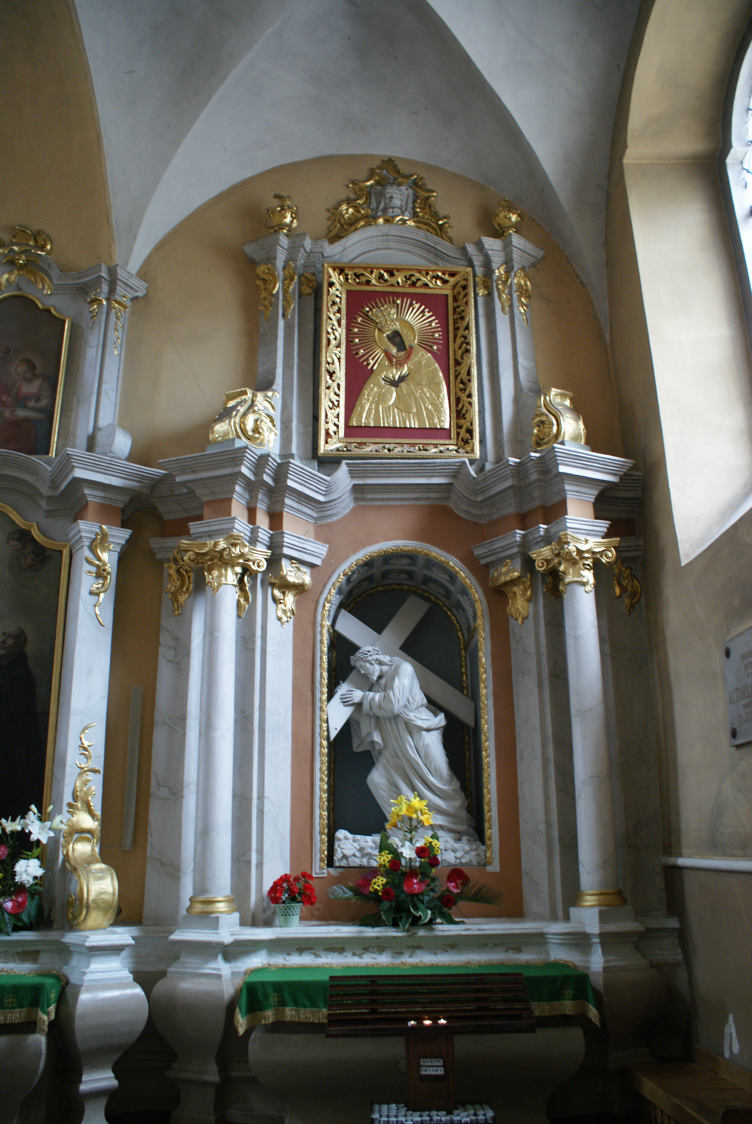 Church of St. Raphael in Vilnius